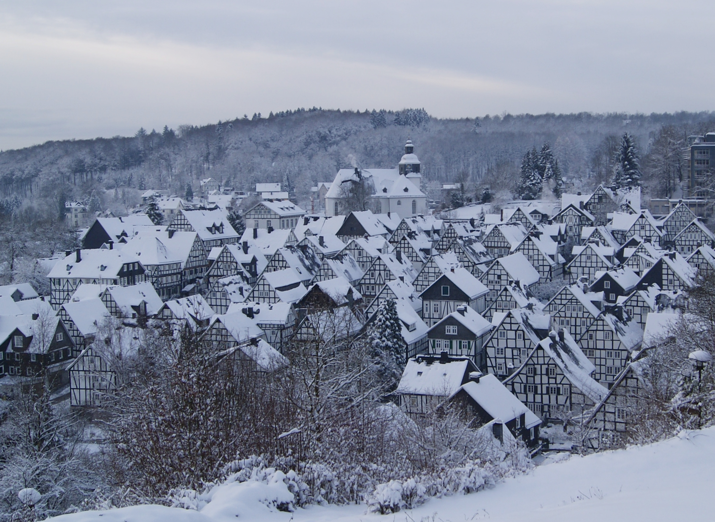 Freudenberg (North Rhine-Westphalia, Germany).